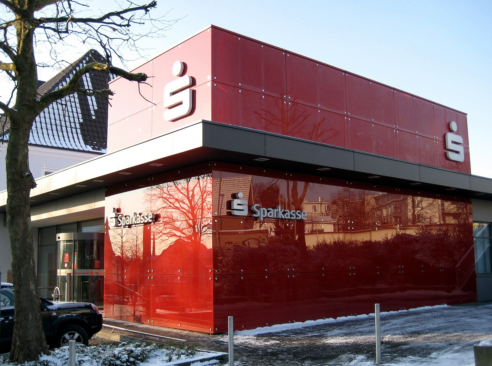 Savings bank in Bünde-Ennigloh, District of Herford, North Rhine-Westphalia, Germany.